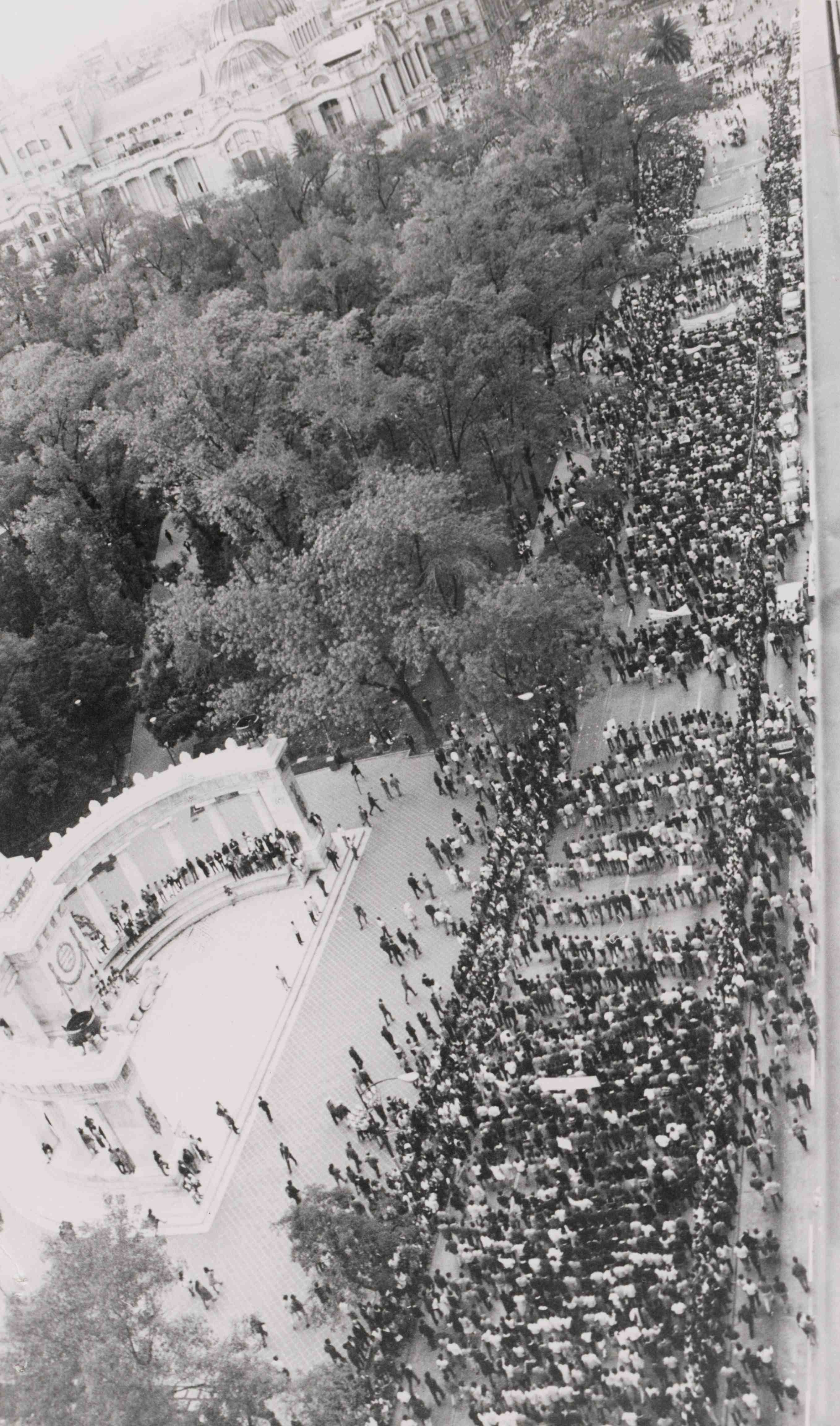 students demostration, Mexico august 27th, 1968